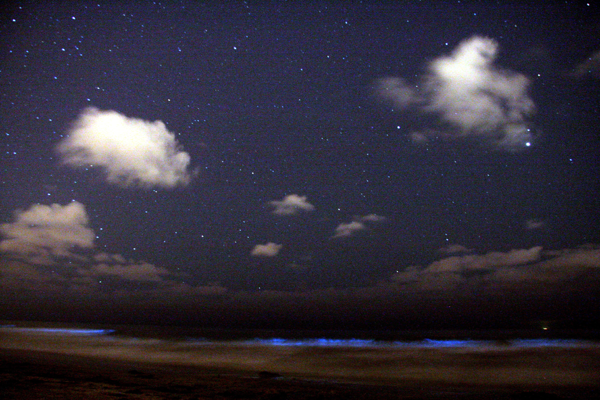 This is an image of a Carlsbad, CA beach during the 2005 red tide. The only image manipulation was the Photoshop Auto Levels command. The greenish-blue light is caused by millions (billions?) of microscopic organisms (Lingulodinium polyedrum) that bioluminesce when they are disturbed (as in a breaking wave). The effect is quite dramatic. The organisms also get washed to shore, so when you walk in the sand, your footsteps light up. If you are brave enough to enter the water at night, there will be a glow around you as you swim. Red Tides caused by L. polyedrum are not toxic.